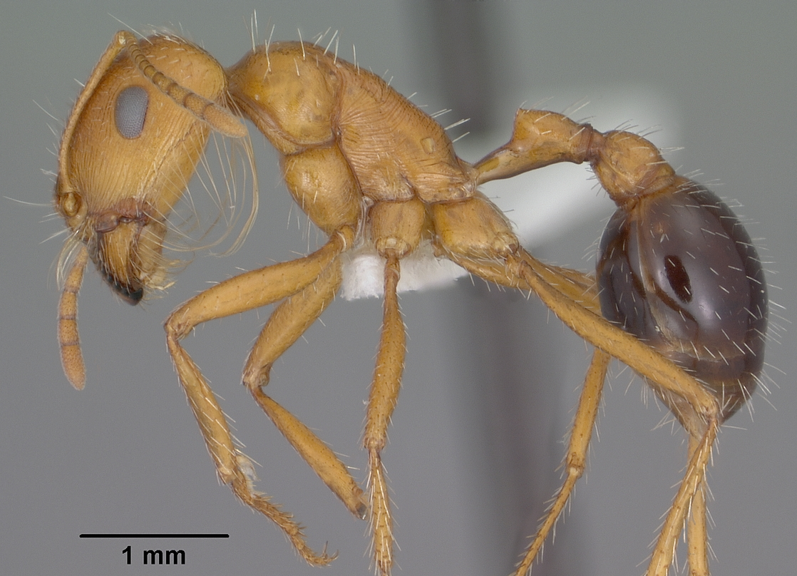 Profile view of ant Pogonomyrmex californicus specimen casent0102895.